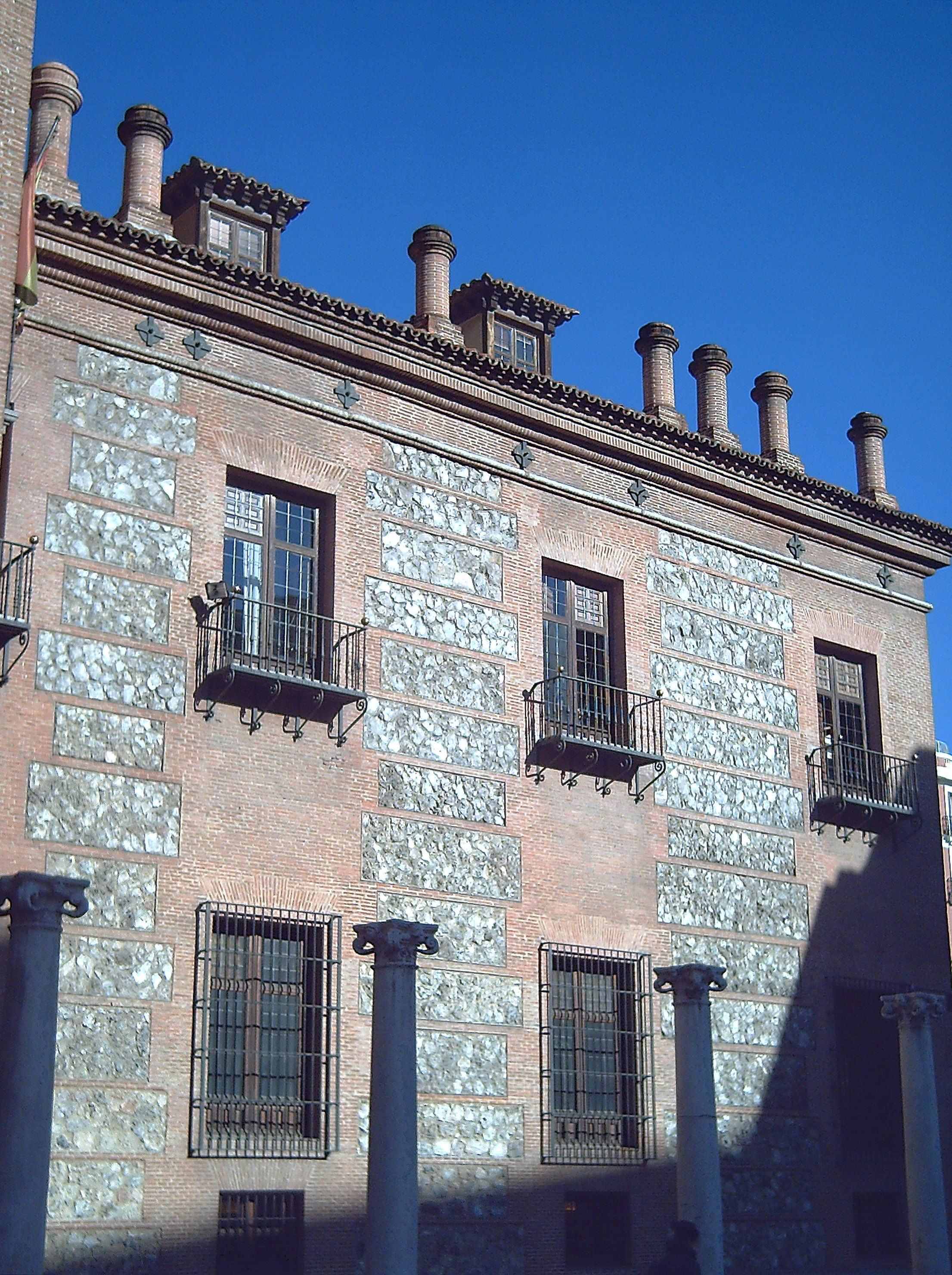 Partial view of the Casa de las Siete Chimeneas (literally "House of the Seven Chimneys") at 1 Plaza del Rey (square) in Madrid (Spain). Projected in 1574 by Antonio Sillero and built from 1574 to 1577; extended in 1586 by Andrea de Lurano; altered in 1877 by Agustín Ortiz de Villajos and in 1882 by Manuel Antonio Capo. Since the 1980's it's the Spanish Ministry of Culture headquarters.